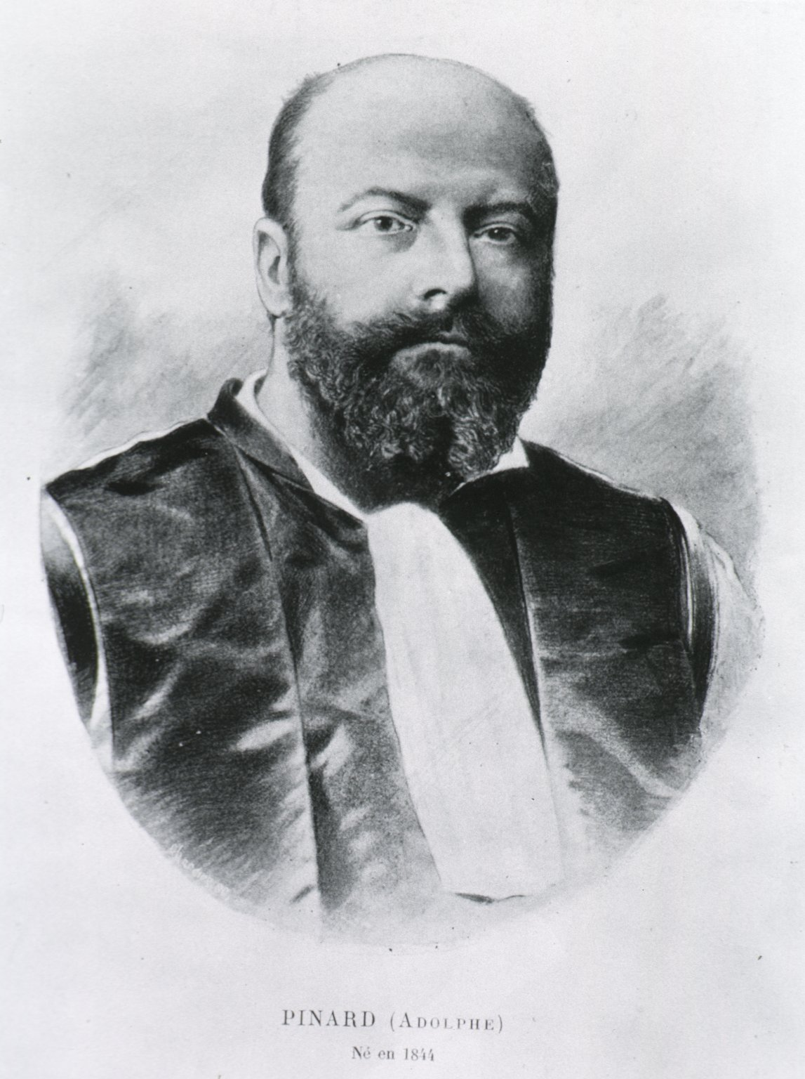 Adolphe Pinard